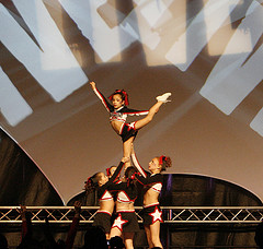 paramount cheerleaders doing a scale